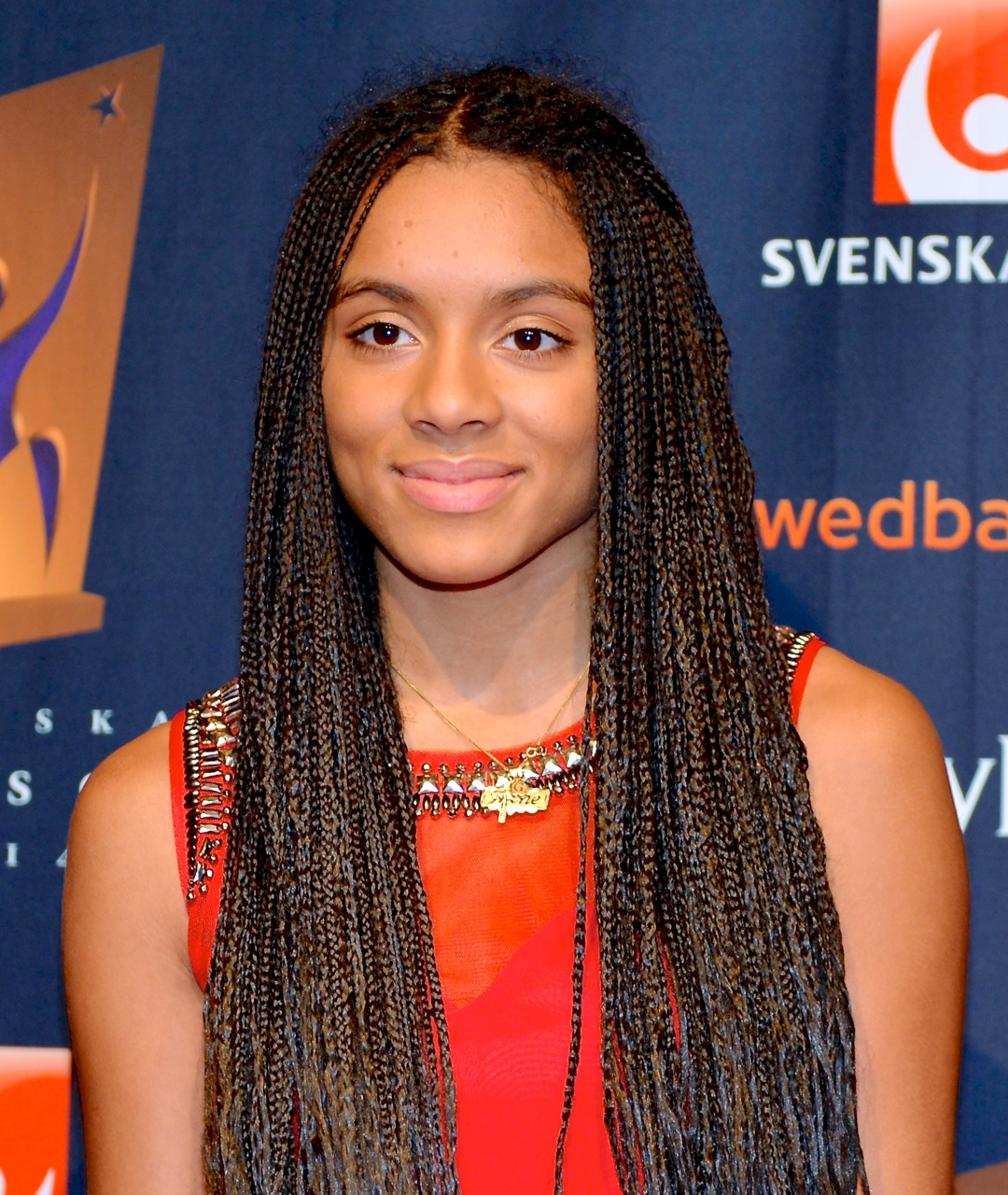 Irene Ekelund was Newcomer of the Year at the Swedish Sports Gala at the Globe Arena in Stockholm on January 13, 2014.